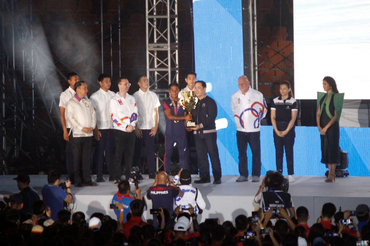 Roger Casugay (holding the trophy; left) of the Philippines was presented the Fair Play Award after he chose to save his Indonesian opponent over a chance to win the semifinals of the Men’s Longboard event in La Union. (Gabriela Liana S. Barela/PIA 3) Tagalog: Iginawad ang Fair Play Award sa surfer na si Roger Casugay (may hawak ng tropeo, kaliwa) ng Pilipinas na mas piniling iligtas ang katunggaling Indonesian kesa ang oportunidad na manalo sa semi-finals ng Men’s Longboard event sa La Union. (Gabriela Liana S. Barela/PIA 3)